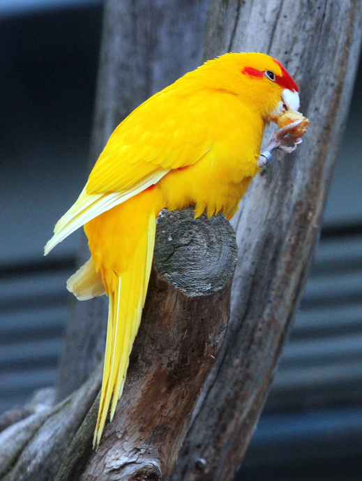 Cyanoramphus novaezelandiae -yellow mutant as commonly found in aviculture